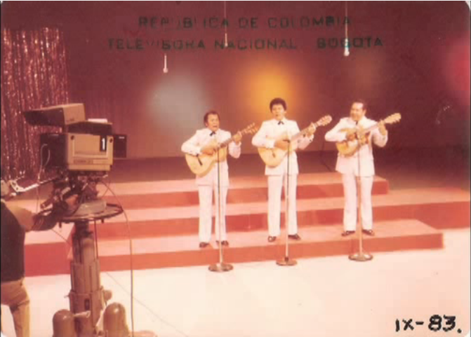 En El Club de la Televisión, 1983